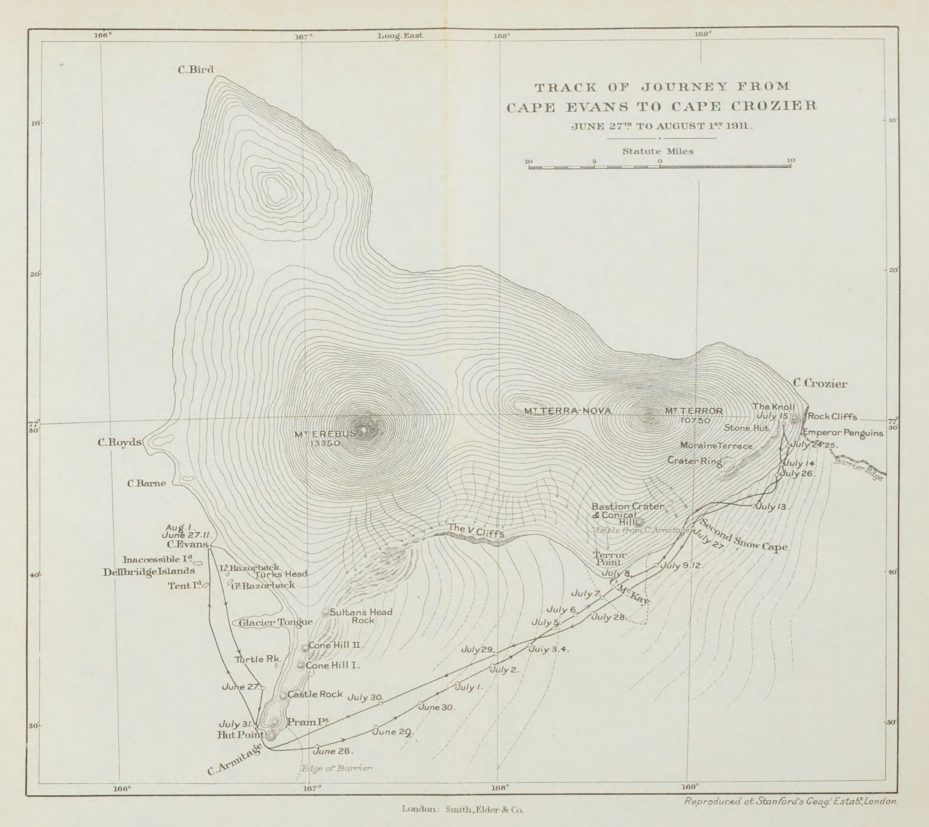 Scott's last expedition /